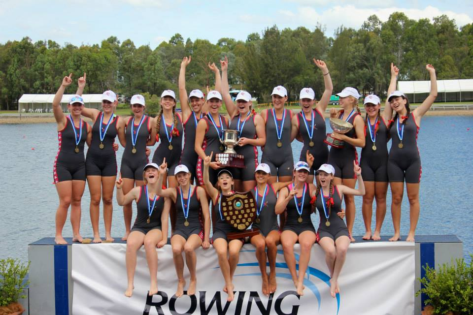 Queenwood's 1st 8 and 2nd 8 in 2014 both won their respective events, winning multiple trophies for Queenwood. This is a photo of both crews celebrating on the podium.